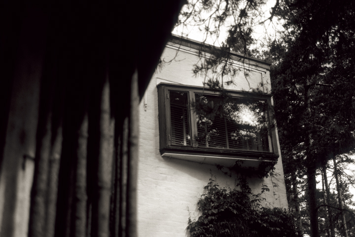 View towards upper window, front of house